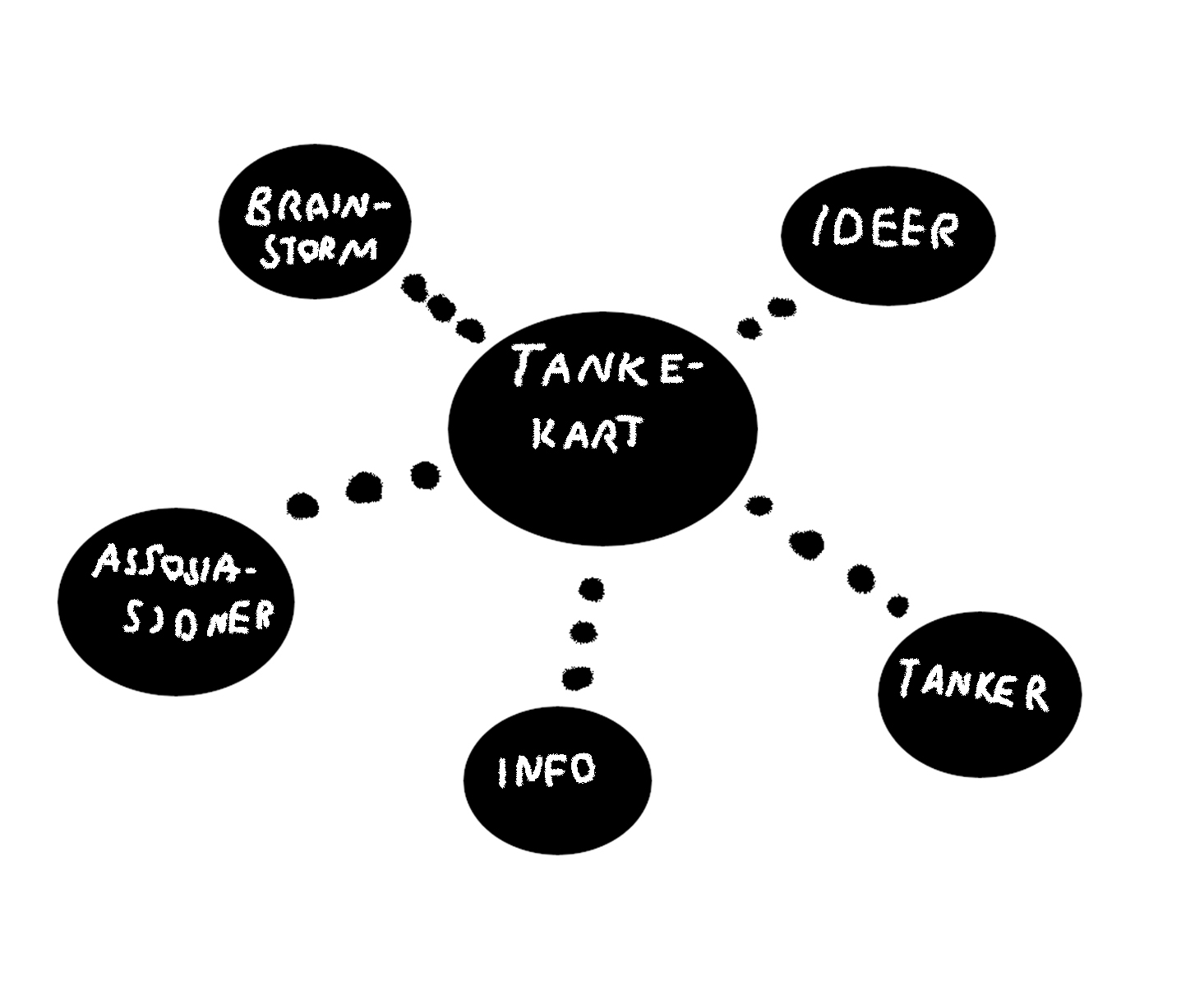 Example of a mind map in Norwegian.